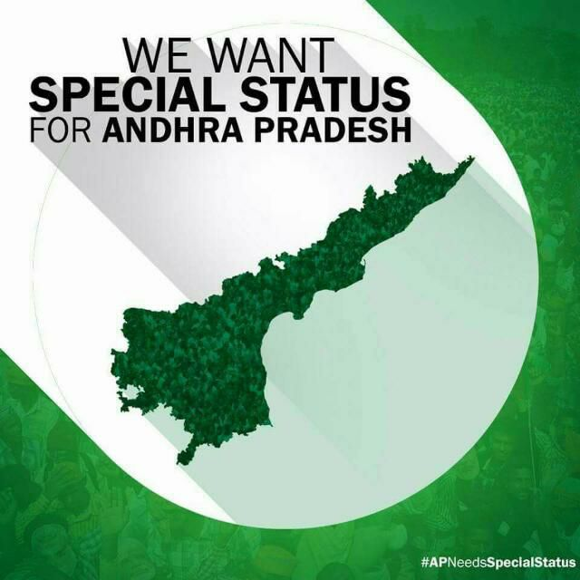 One of the Soft-Banners widely circulated in social media for gathering people to protest.